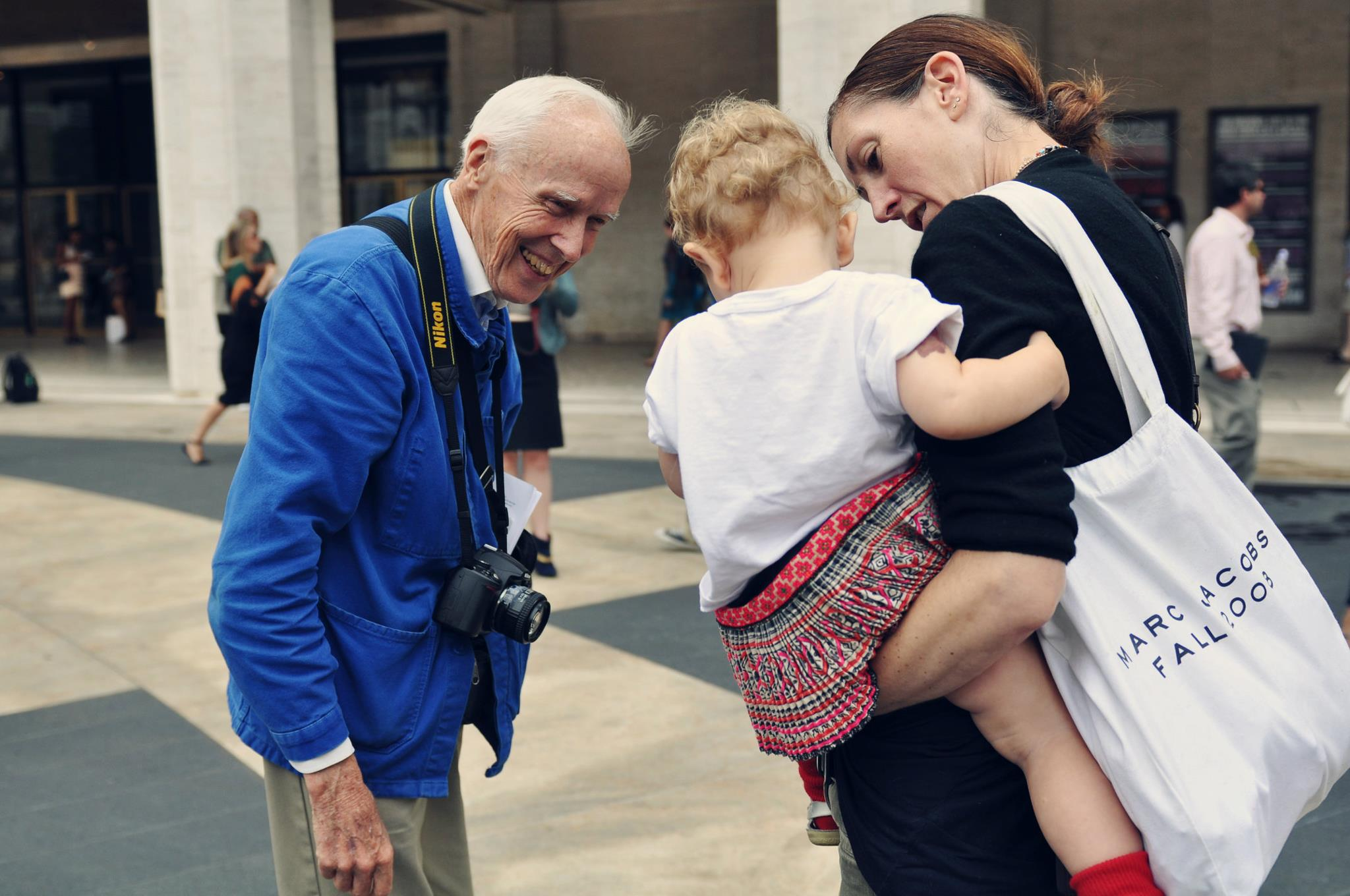 Bill Cunningham at Fashion Week photographed by Jiyang Chen